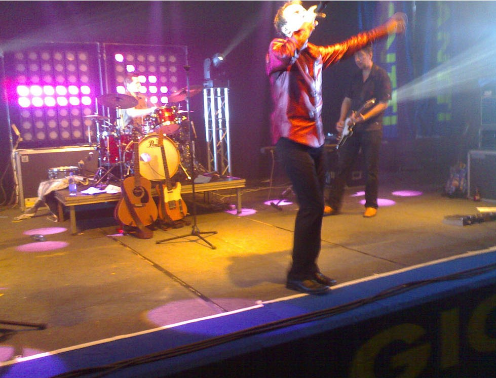 A cropped version of File:Nelja ruusua tampereella.jpg